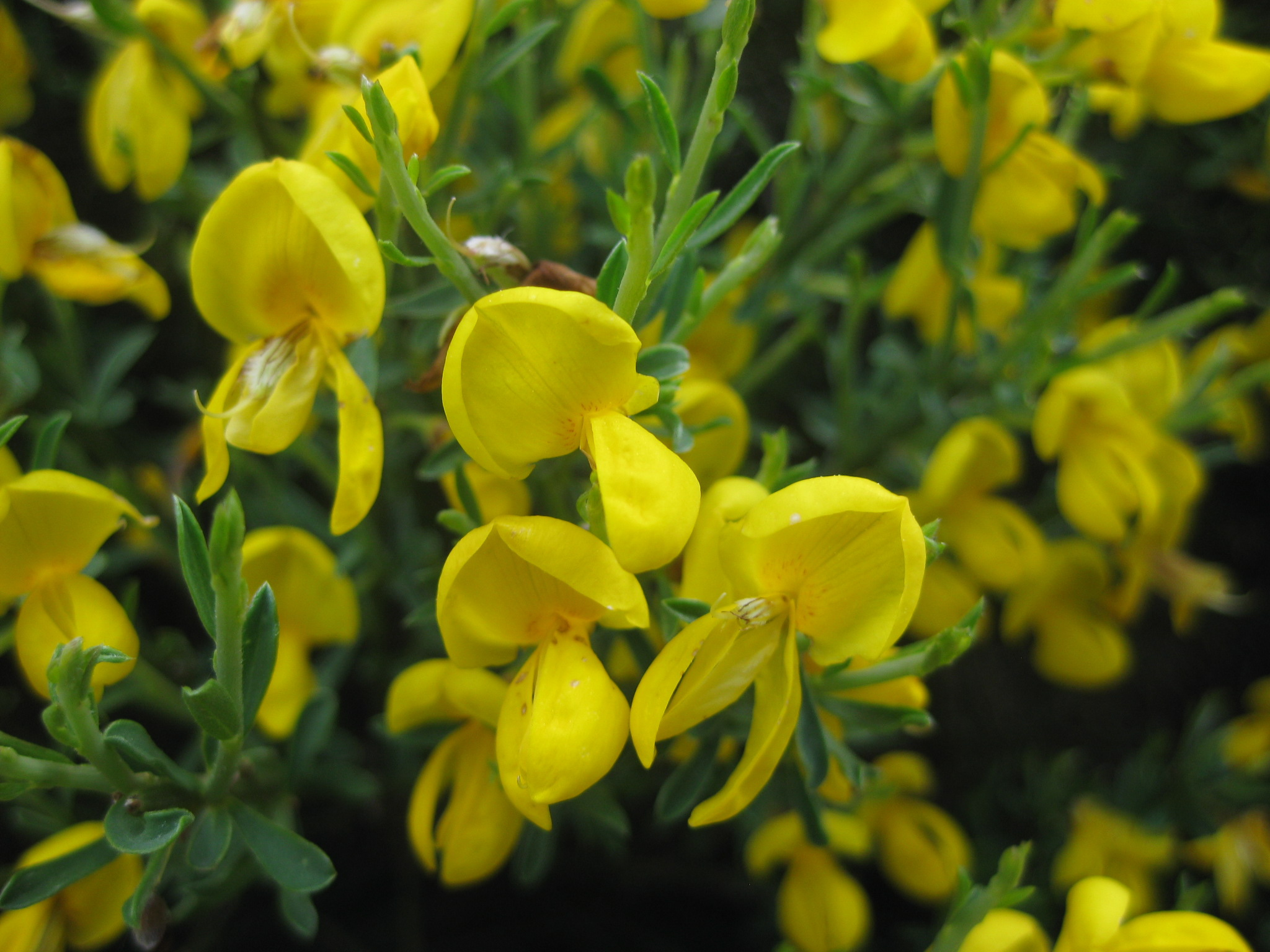 Cytisus oromediterraneus, Vall de Sorteny, Ordino (Andorra). Accepted name in the Biodiversity data bank of Catalonia: Genista balansae subsp. europaea. Accepted name in GRIN: Cytisus oromediterraneus